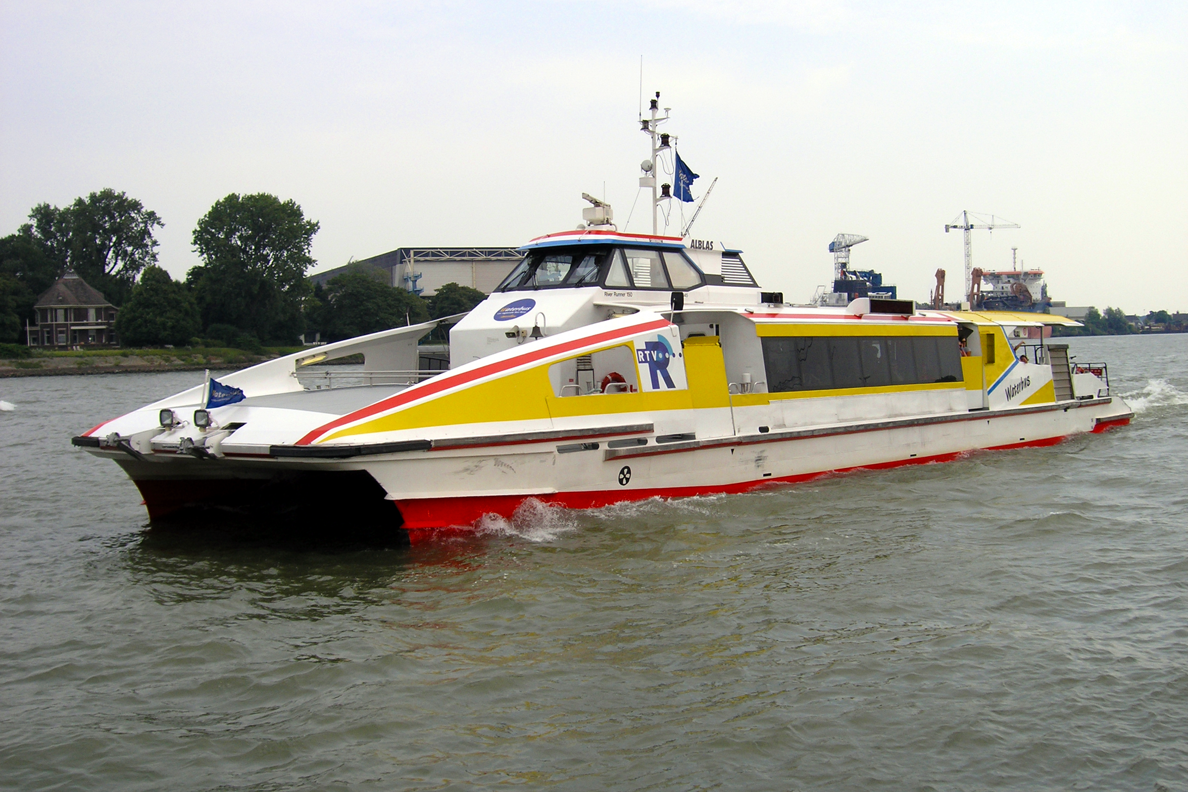 Water bus from Dordrecht to Rotterdam, the Netherlands. Picture taken on Friday 7 August 2009, near Slikkerveer, looking in the direction of Kinderdijk and Alblasserdam, from a water bus going in the opposite direction.